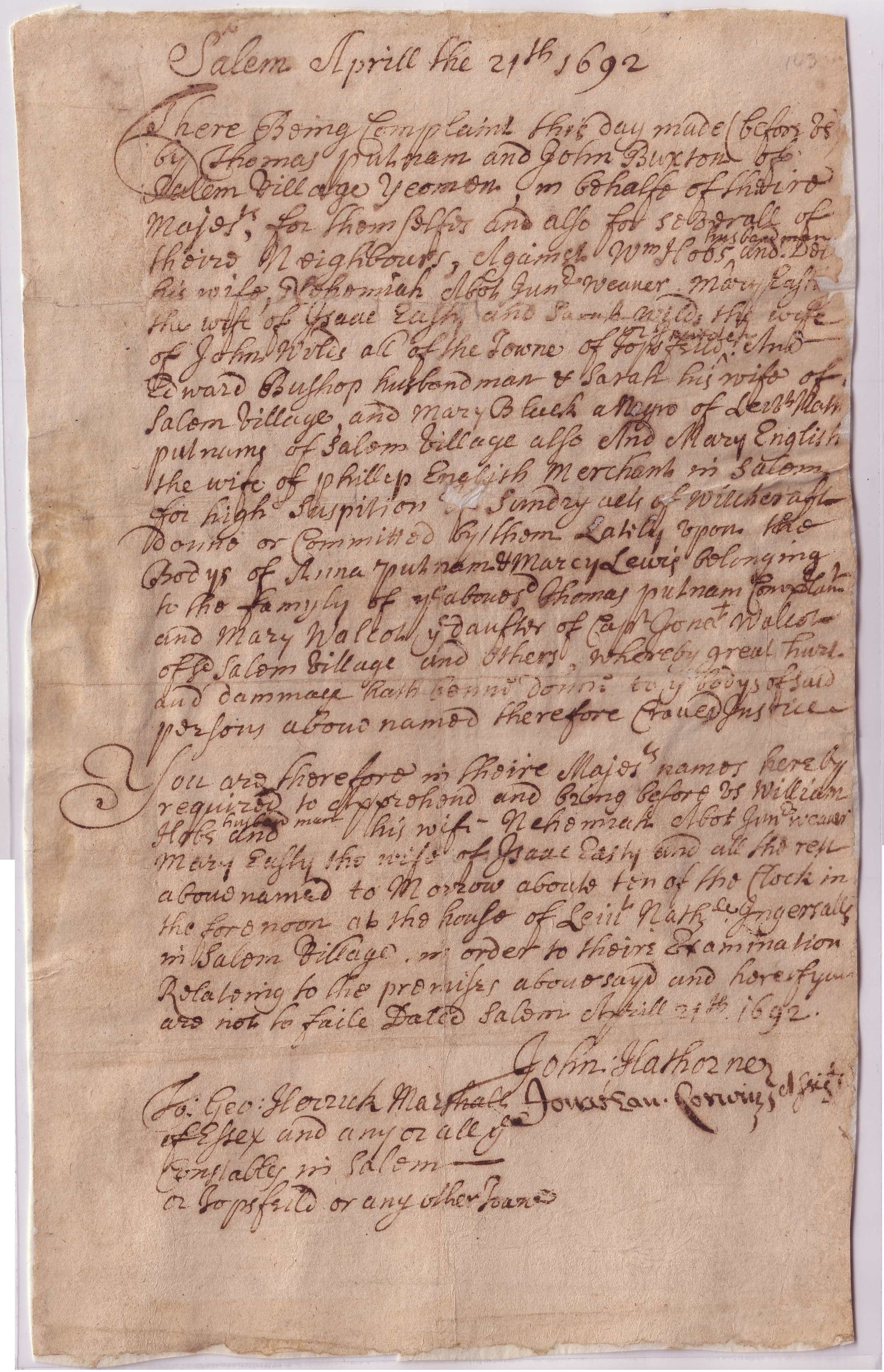 Arrest warrant for William Hobbs, Deliverance Hobbs, Nehemiah Abbott Jr., Mary (Towne) Easty, Sarah (Averill) Wildes, Edward Bishop Jr., Sarah (Wildes) Bishop, Mary Black, & Mary (Hollingsworth) English in the Salem witch trials